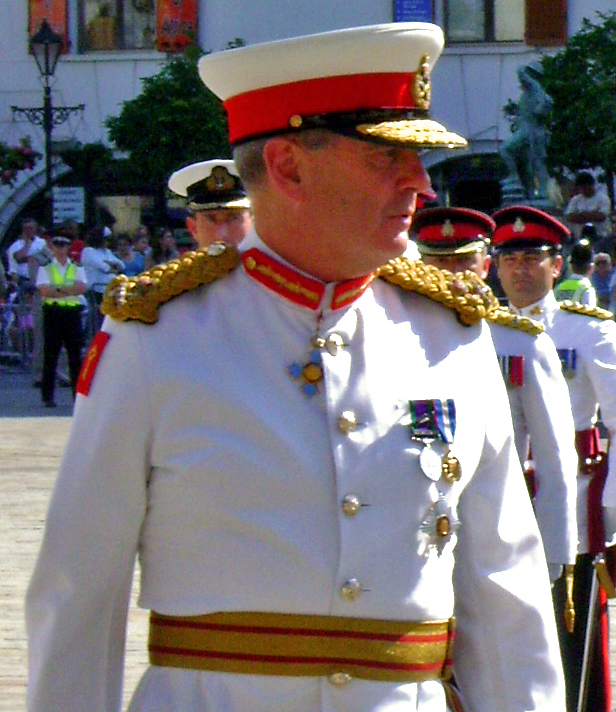 Lieutenant General Sir Robert Fulton, Governor of Gibraltar between 2006 and 2009 inspects the elements of a military parade in Casemates Square.